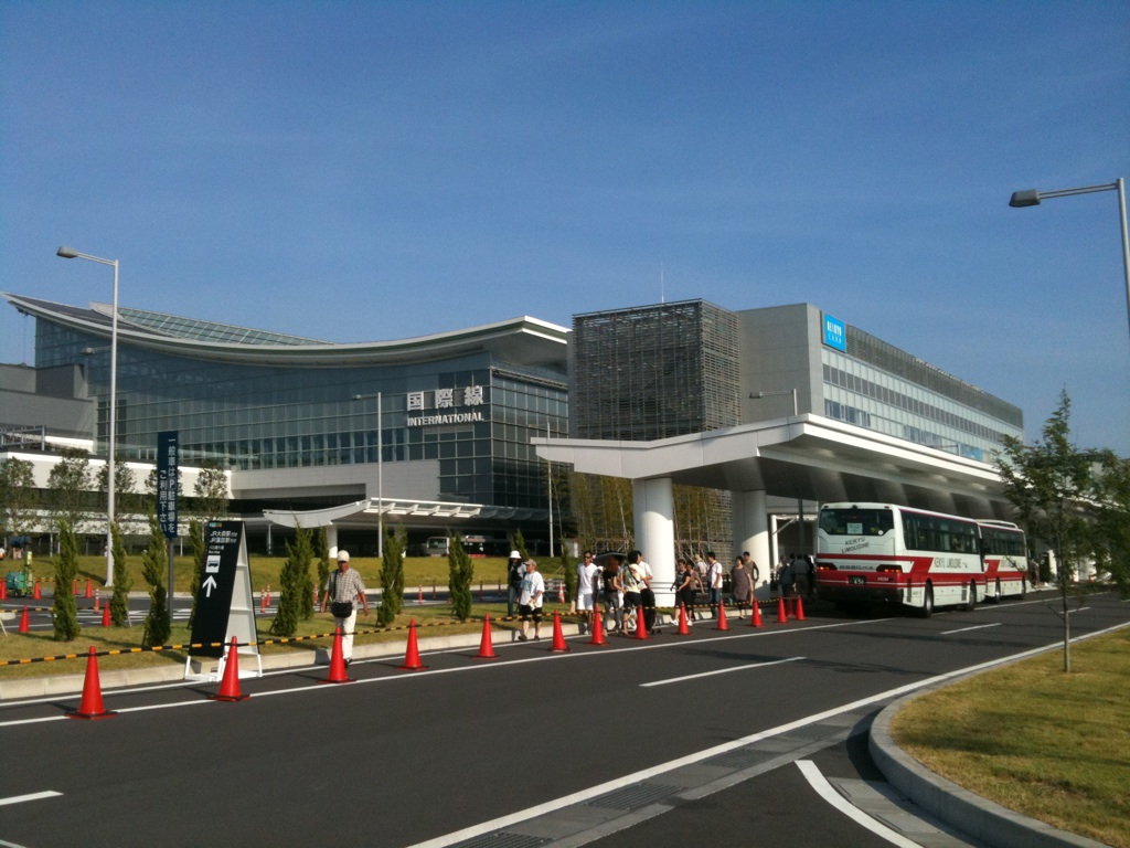 Tokyo International Airport, International Terminal